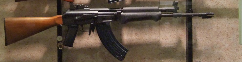 Finnish assault rifle Valmet M76. Image cropped from Image:Rifles (.jpg)